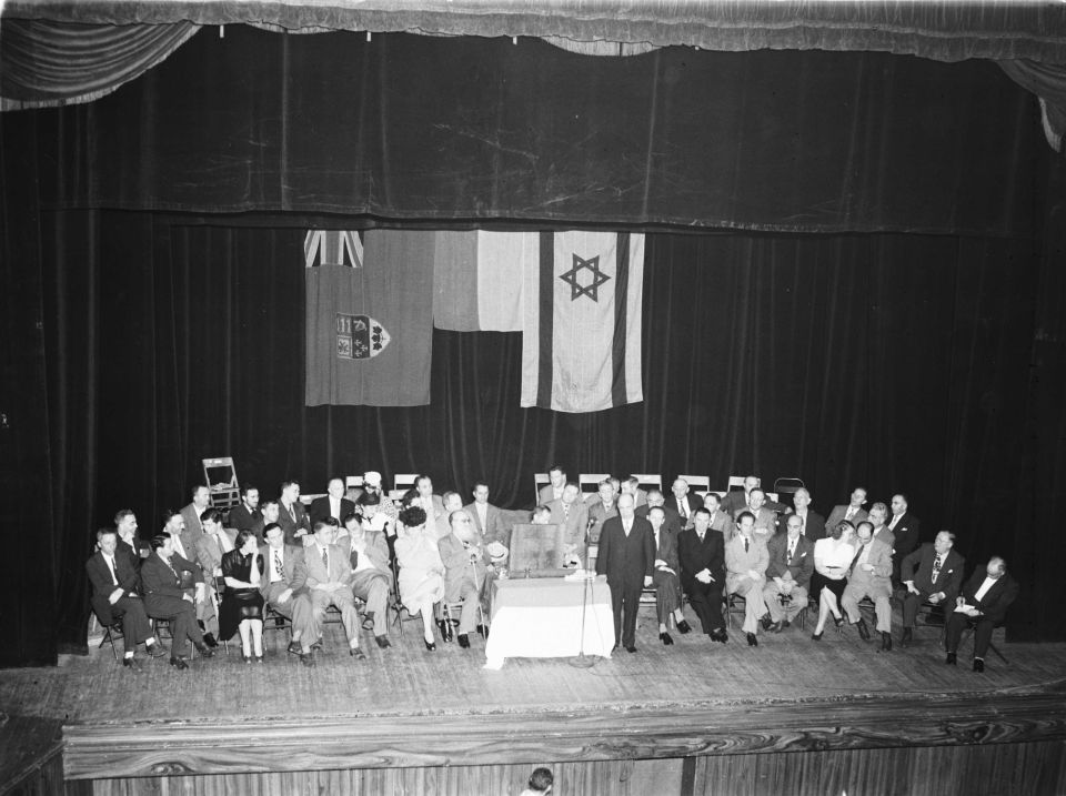 Members of the Canadian Jewish Congress met on the stage of "His Majesty's Theatre" on Guy Street in Montreal. The Israeli flag and a flag with the Canadian Coat of Arms are suspended from the ceiling.